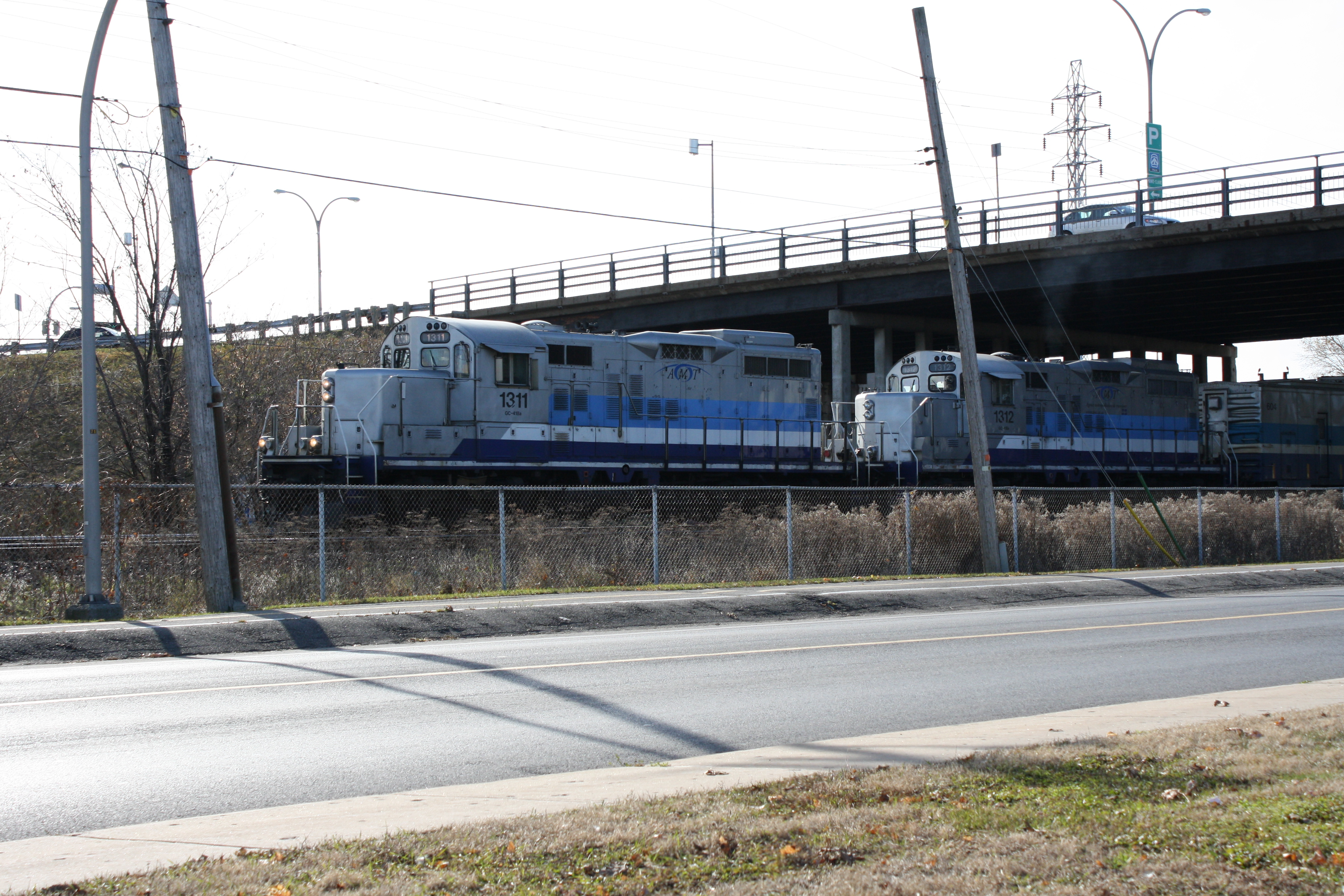 AMT 1311, 1312 operating on Vaudreuil–Hudson line, passing under Boulevard Saint-Jean bridge on arrival to Pointe-Claire station.